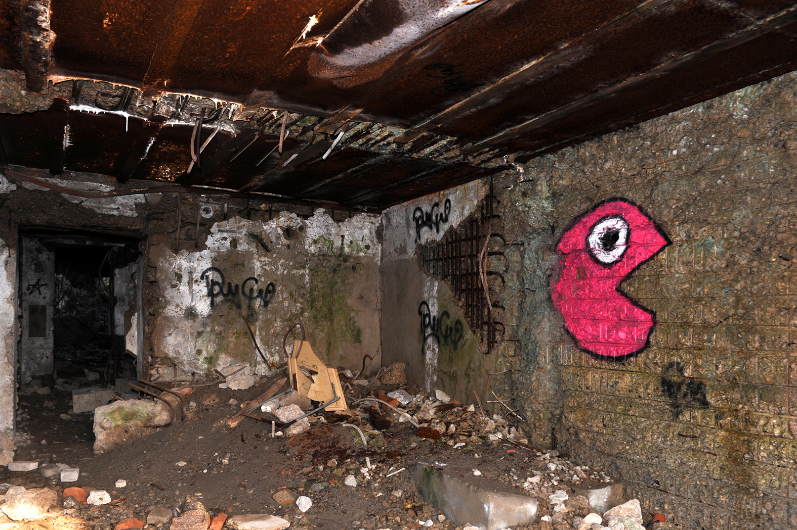 Pac-Man in casemate 52 (Saasenheim 31/3) of the Maginot Line; Bas-Rhin, France.